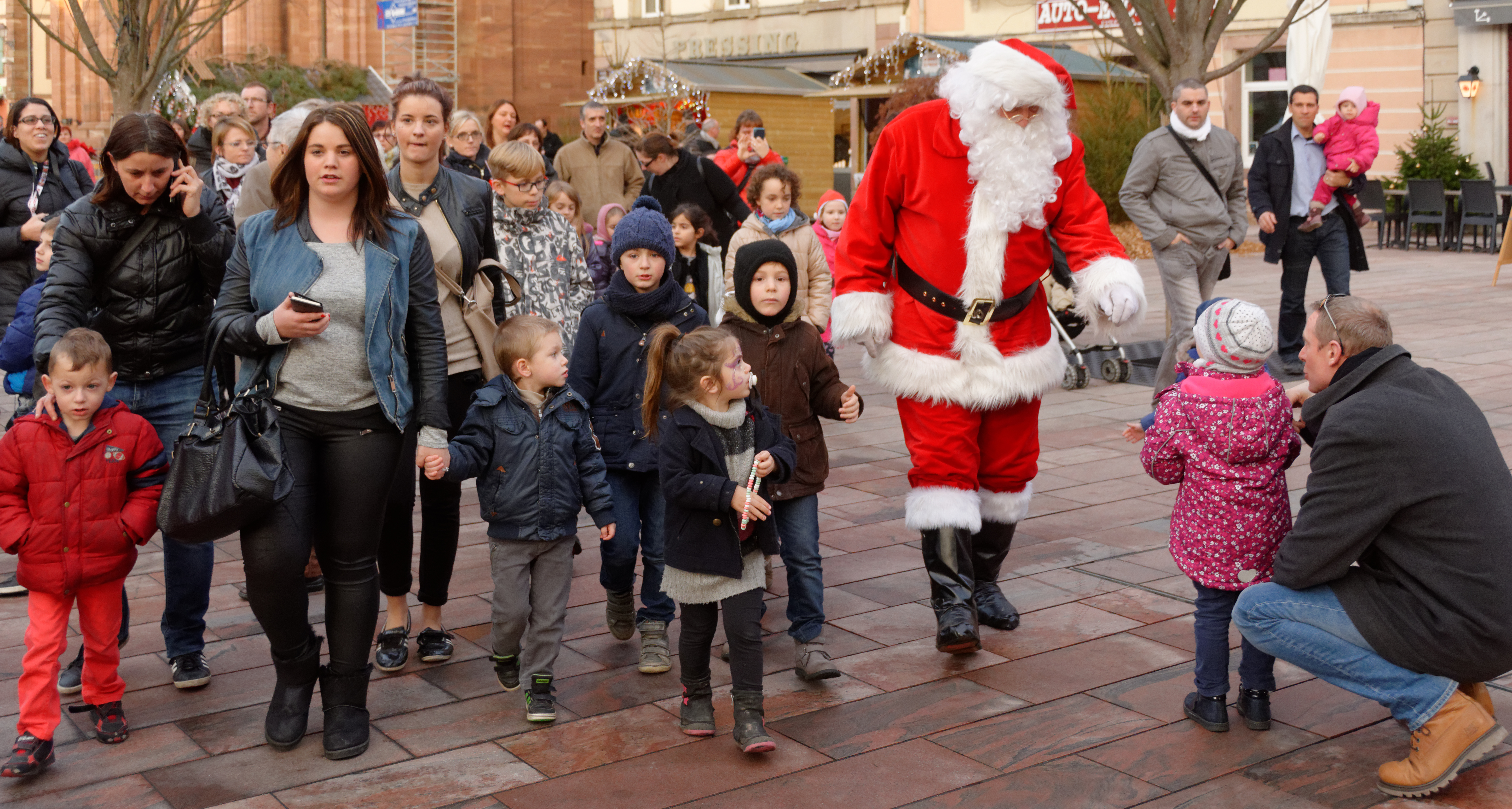 Personality rights warningAlthough this work is freely licensed or in the public domain, the person(s) shown may have rights that legally restrict certain re-uses unless those depicted consent to such uses. In these cases, a model release or other evidence of consent could protect you from infringement claims.